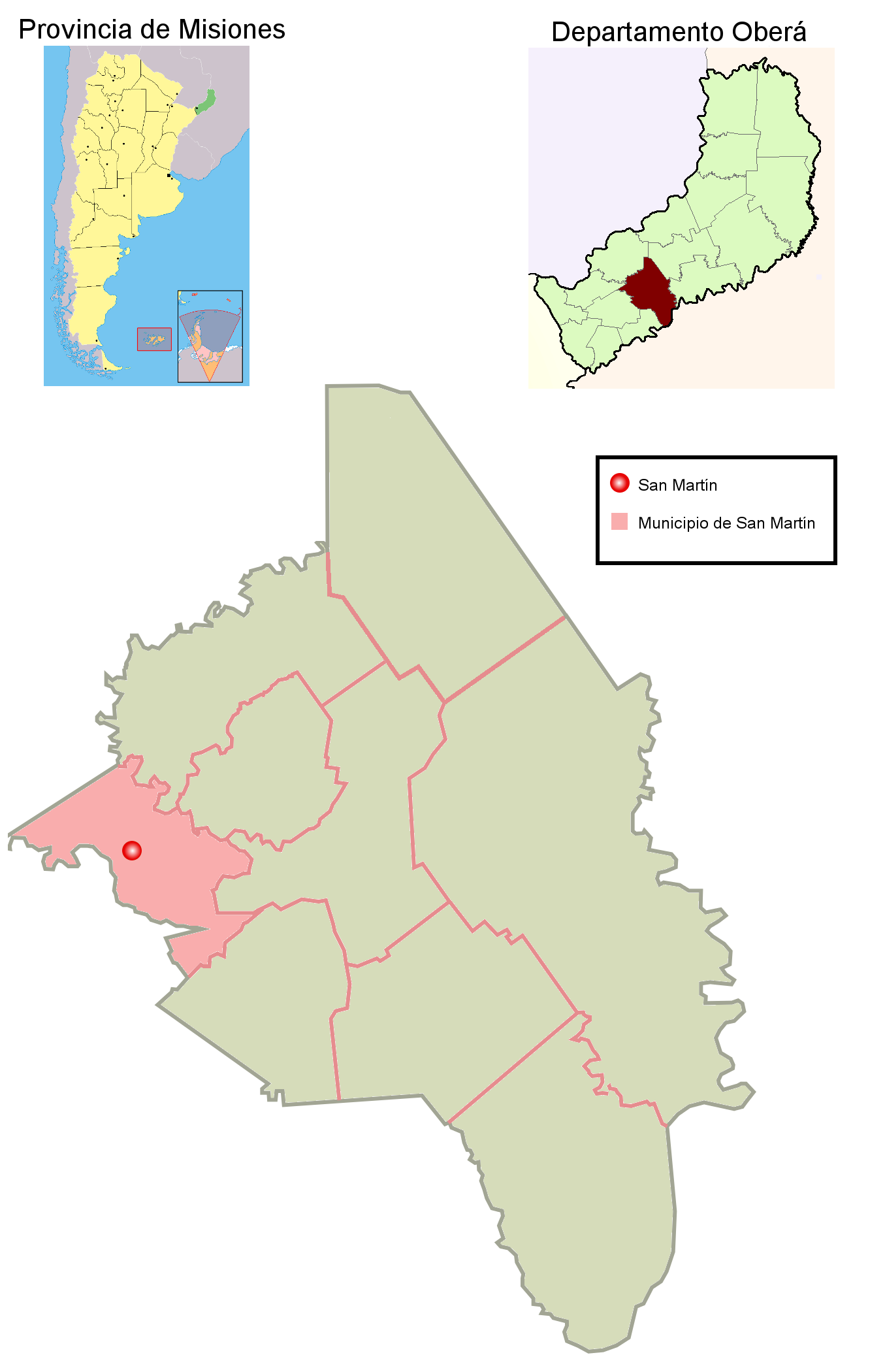 A map showing municipio of San Martín in Oberá departament, Misiones province, Argentina. Also shows San Martín town location. Created with GIMP.